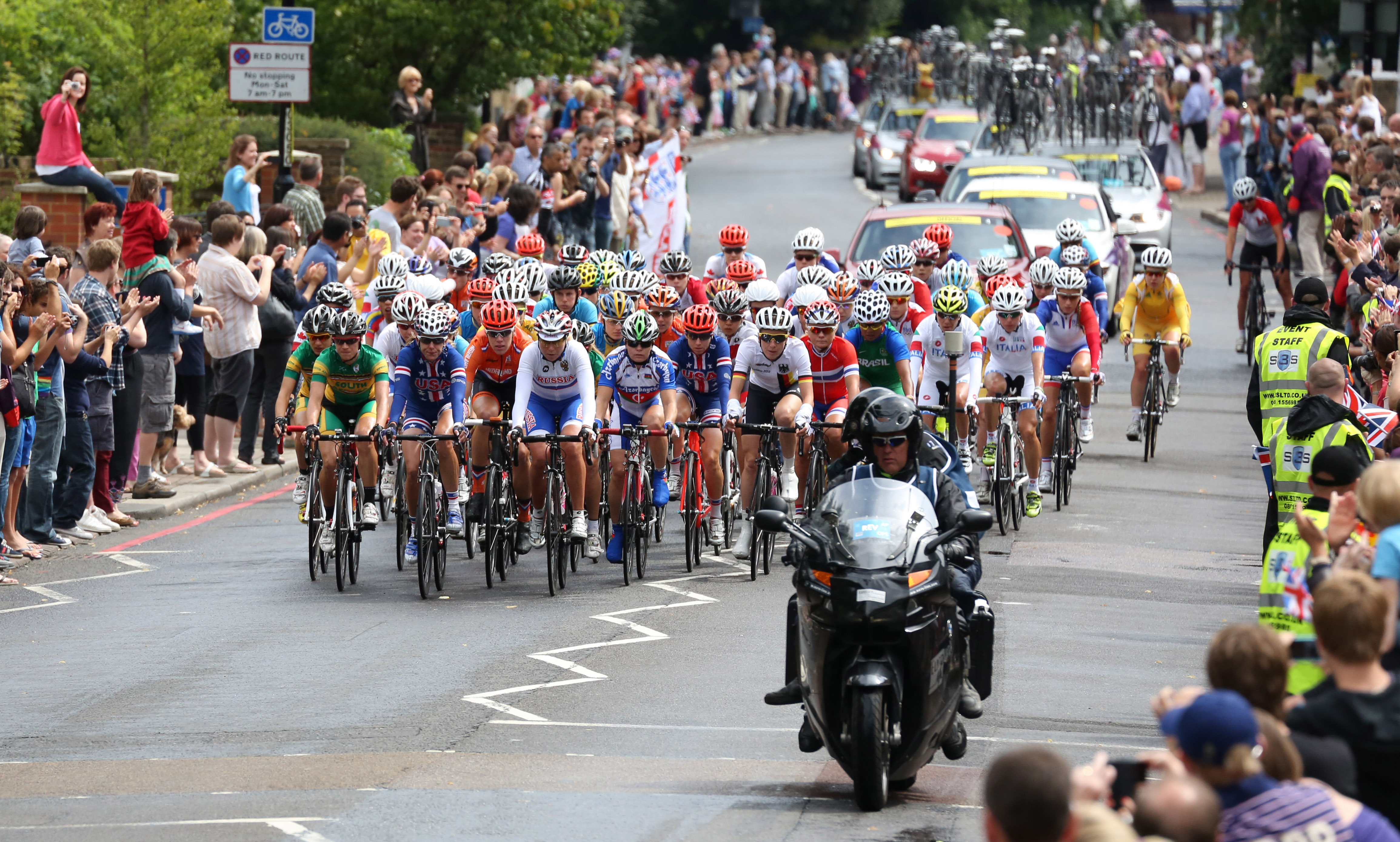 The Womens Olympic Road Race Peleton as viewed from Upper Richmond Road in Putney, Southwest London 10km into the race.Ellen van Dijk in orange at the front.